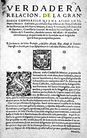 Cover of "Verdadera relacion, de la grandiosa conversion qve ha avido en el Nuevo Mexico" (1632) by Esteban de Perea